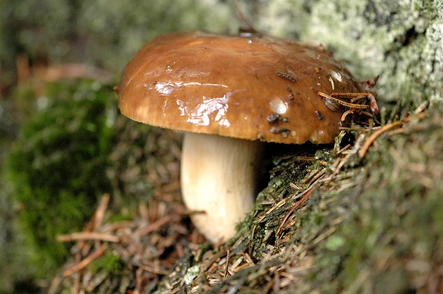 Russula mustelina from Commanster, Belgium. The determination of the species shown in this picture has been verified.